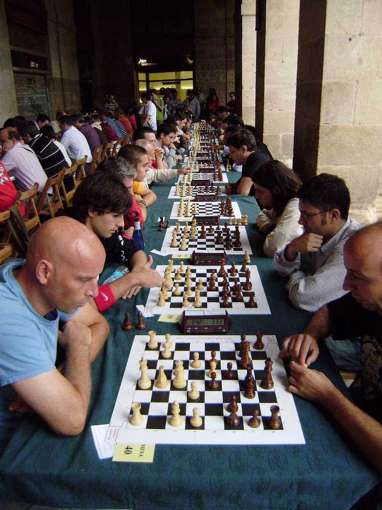 Rapid tournament at Bilbao Grand Slam